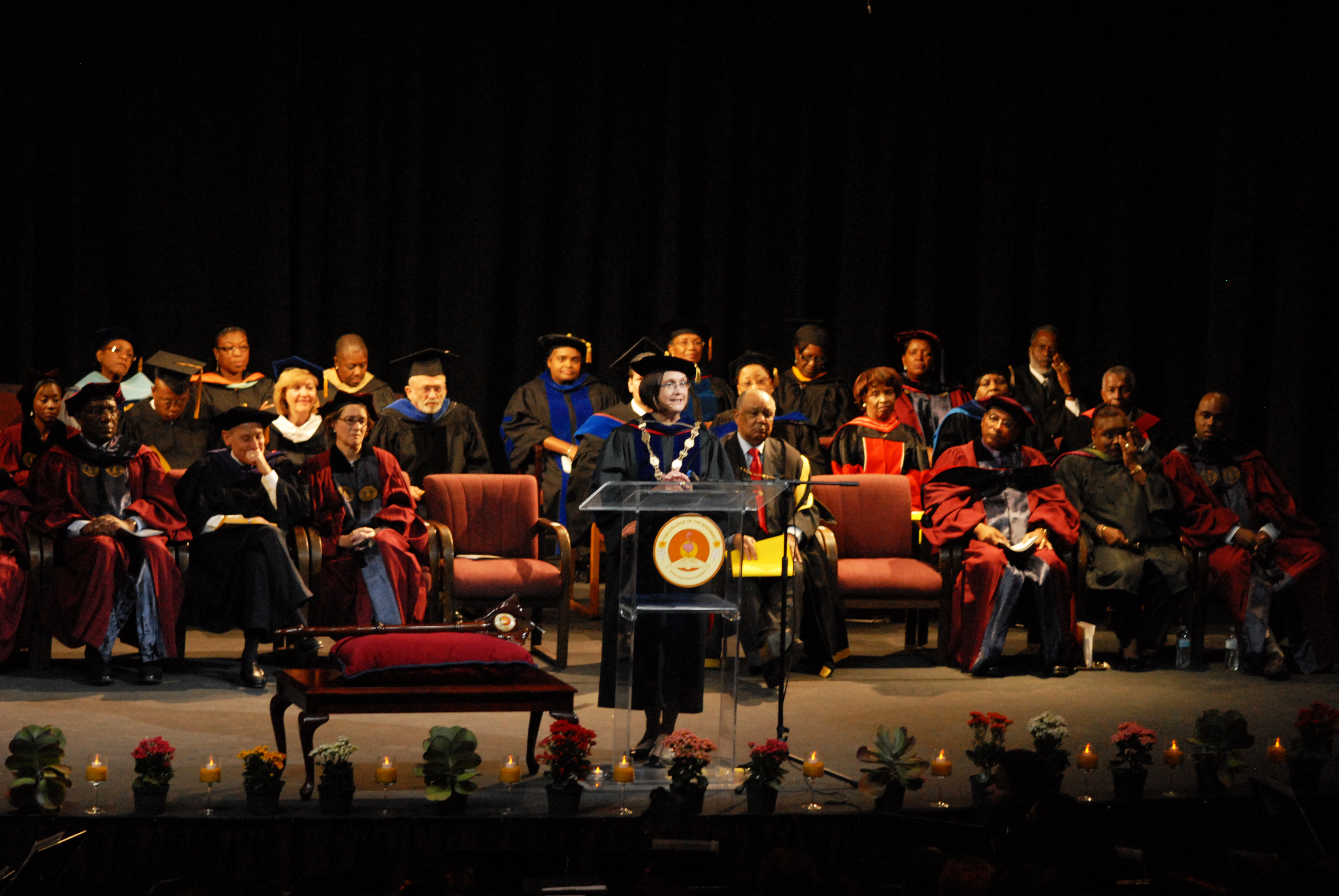 Dr. Betsy Vogel Boze addressing TheCollege of The Bahamas at her investiture as the 5th President.